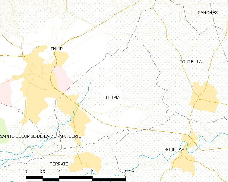 Map of French municipality